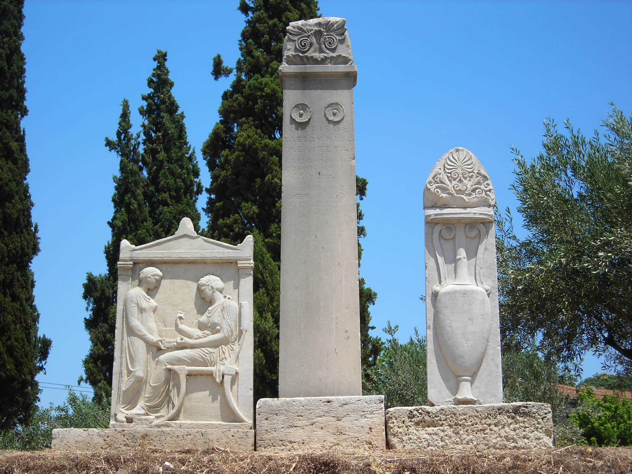 Funerary Steles at Kerameikos, Athens, Greece.